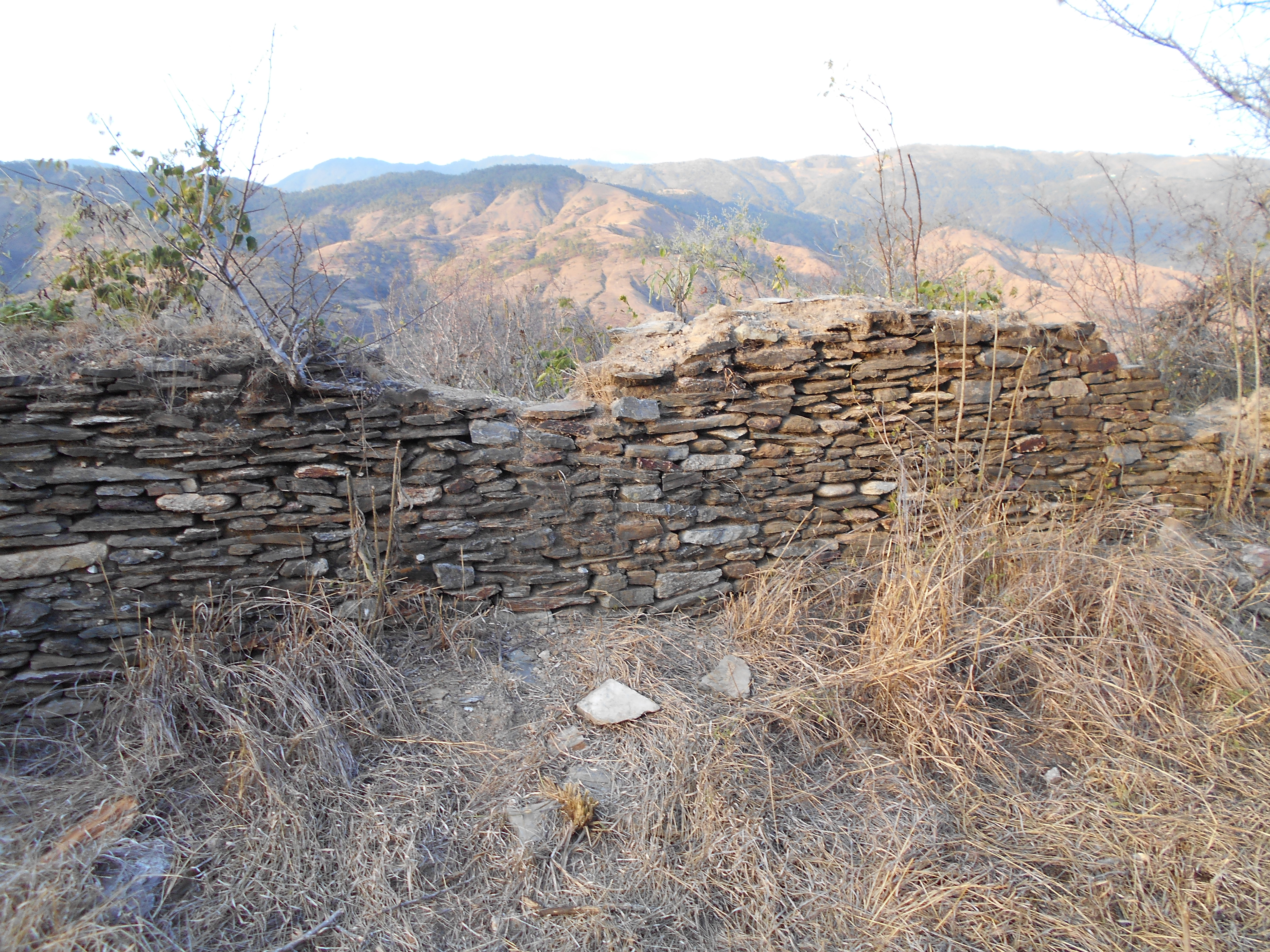 Postclassic Maya ruin of Chutixtiox, near Los Trapichitos, Sacapulas, El Quiché, Guatemala.